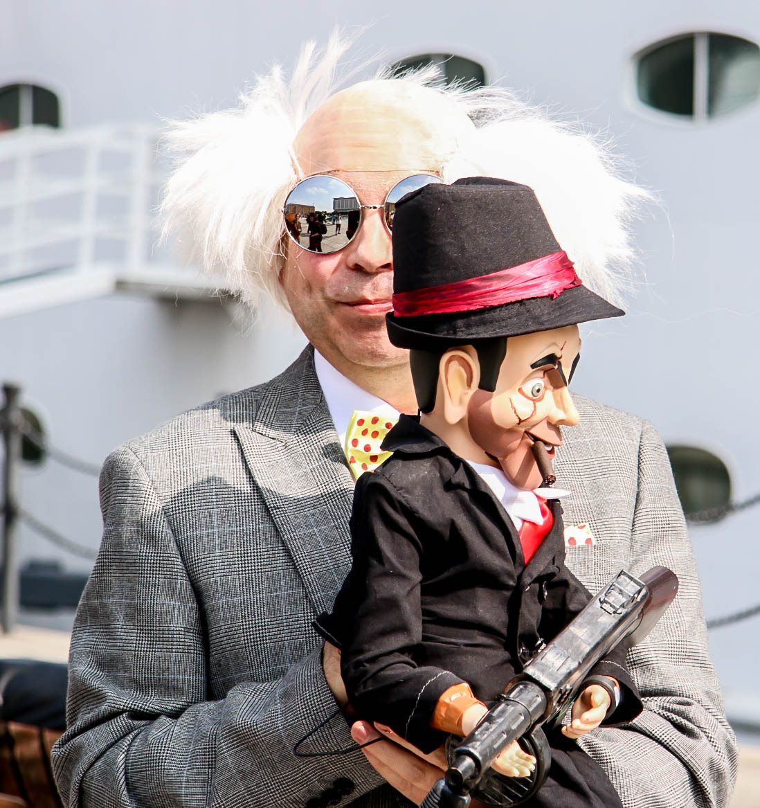 Cosplay at MCM London Comic Con in May 2016.